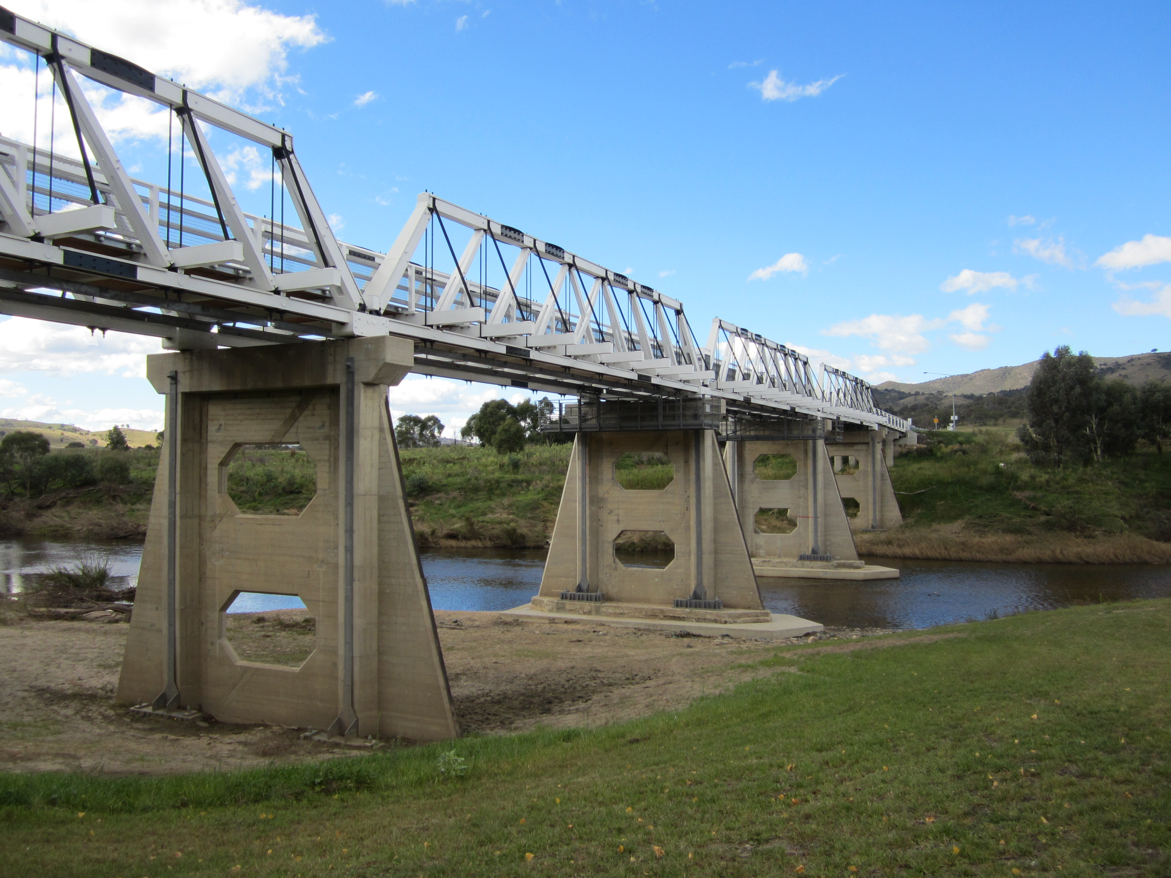 Tharwa Bridge, looking north east from Tharwa across the Murrumbidgee River